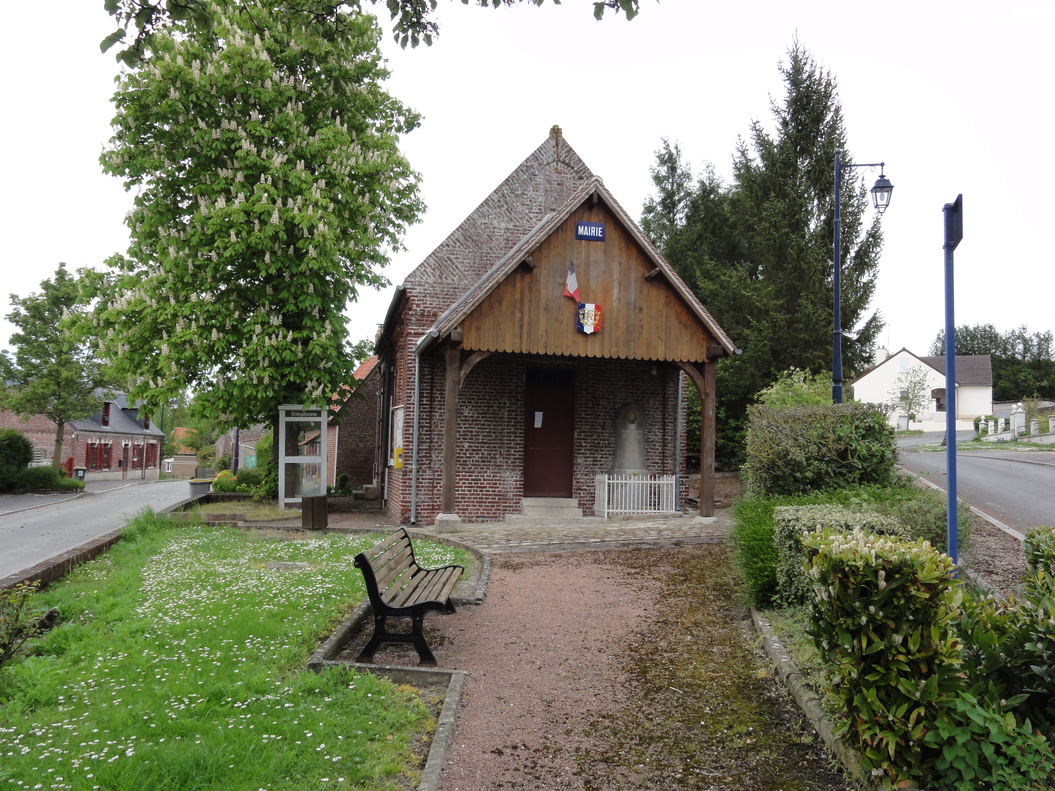 Courbes (Aisne) mairie